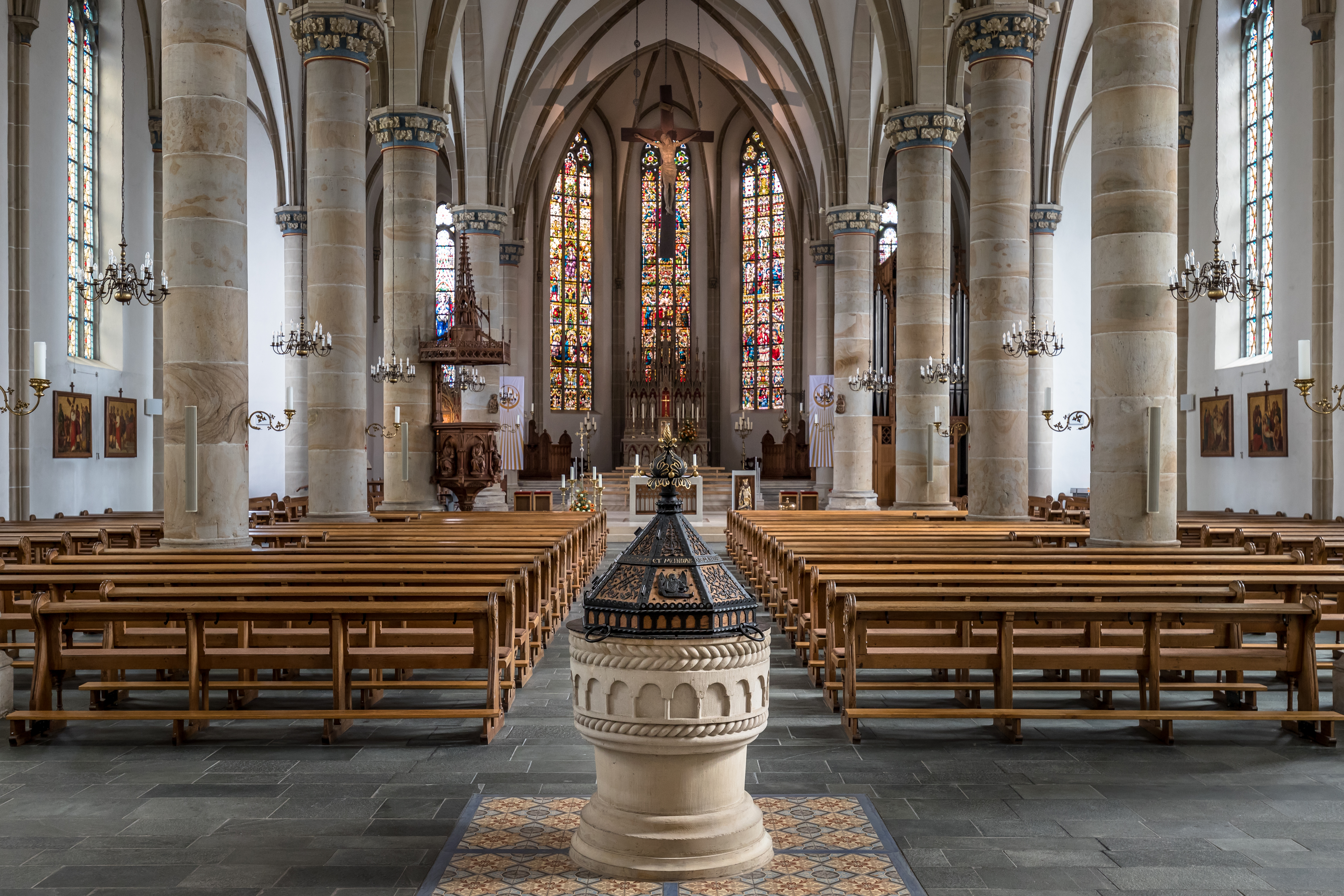 Interior of the St. Agathe Pfarrkirche